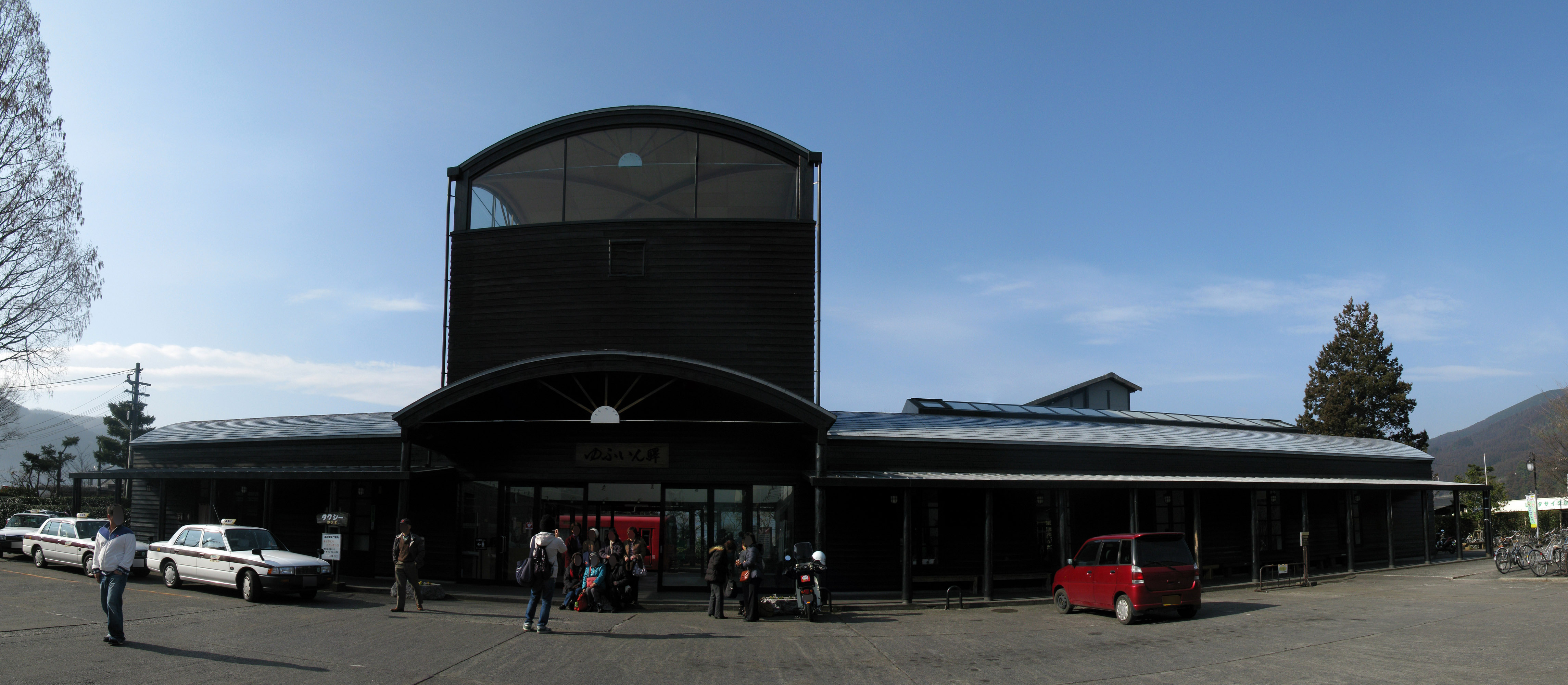 Kyūdai Main Line Yufuin Station